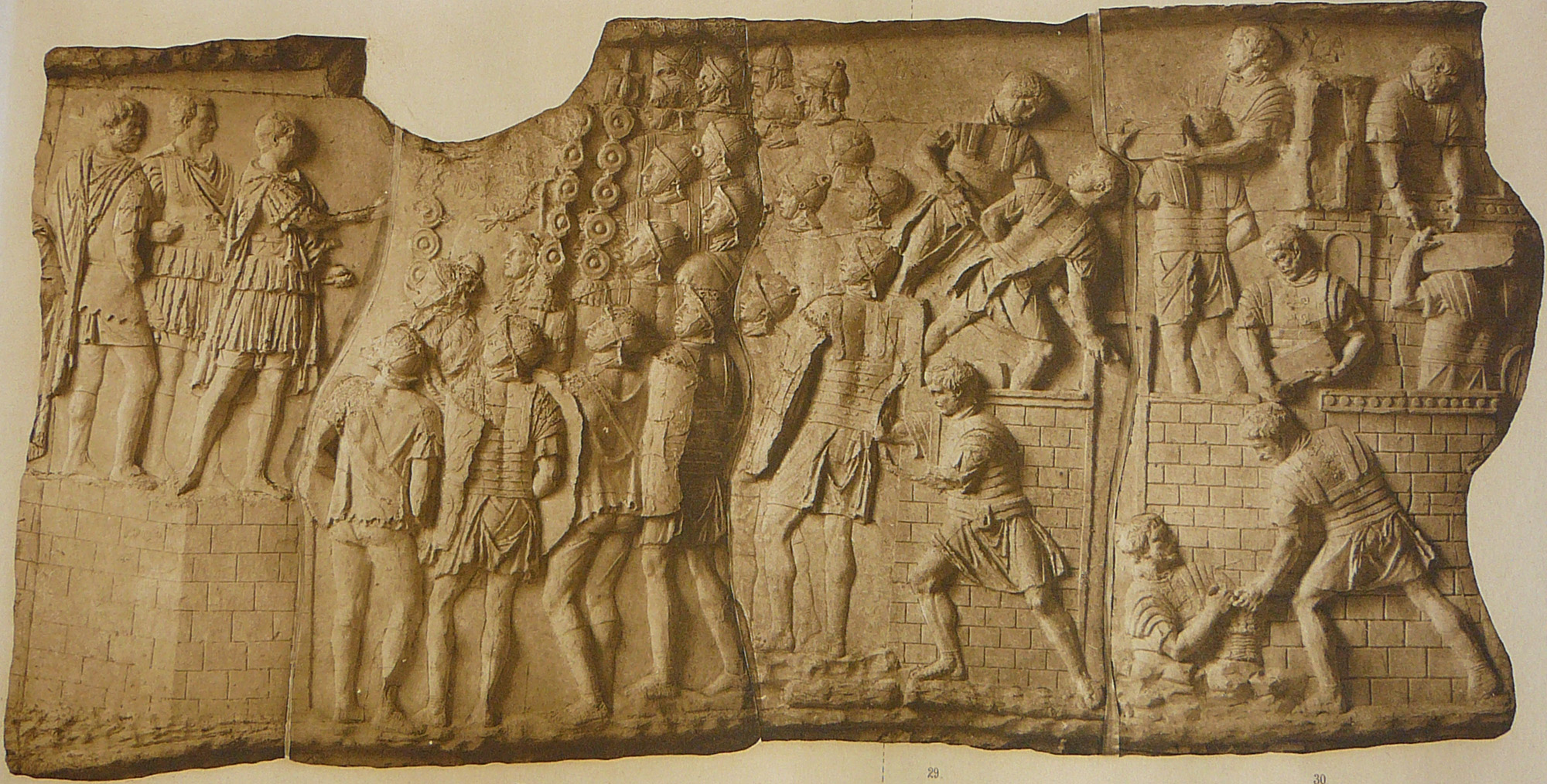 Adlocutio (scene X); building a fort (scene XI)